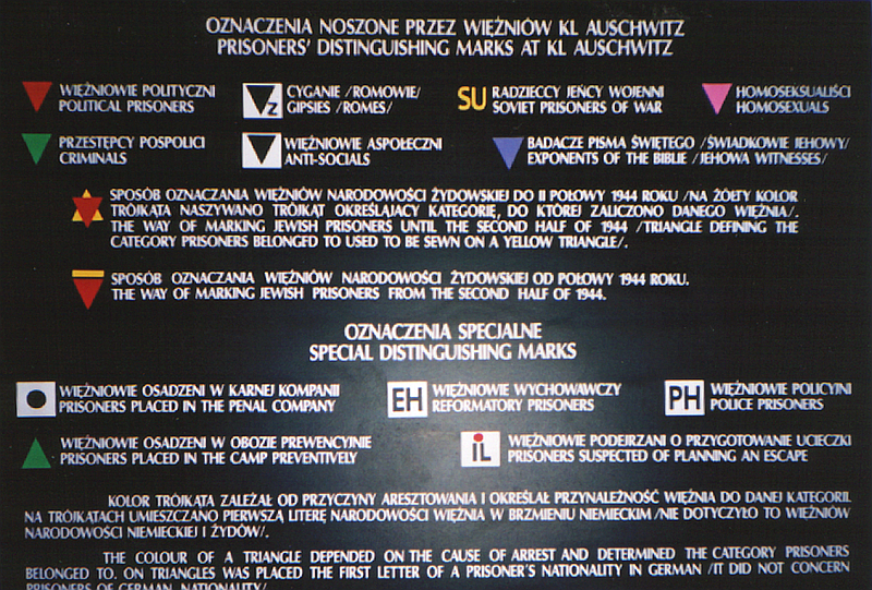 Prisoners' distinguishing badges, used in the Auschwitz Concentration Camp